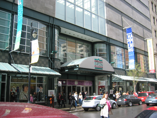 The entrance to the Centre Eaton on Sainte Catherine Street, Montreal, Quebec